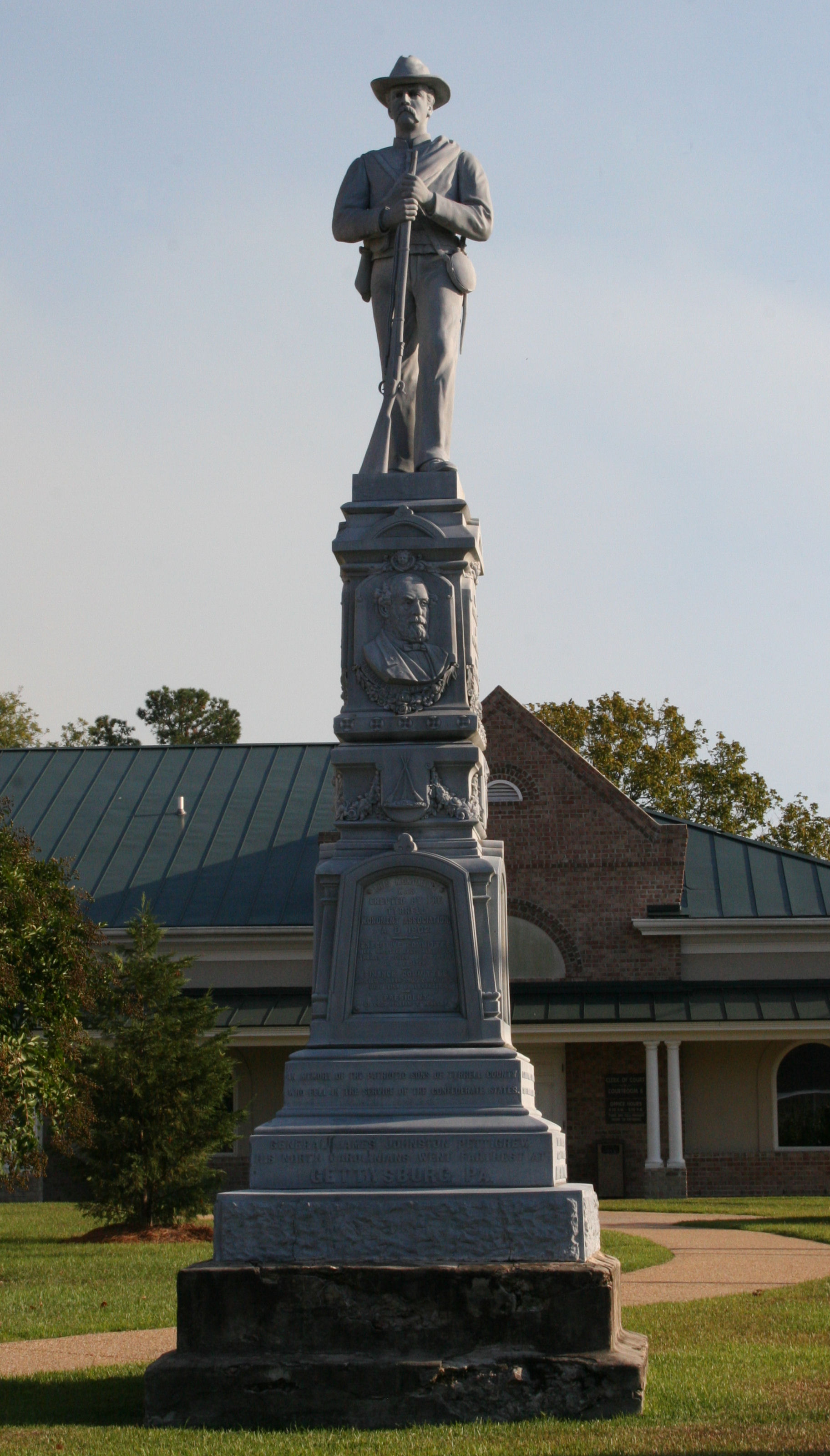 Confederate Monument honoring General James Johnston Pettigrew, which can be found on East Main street, in Plymouth, N.C. This is actually the Tyrrell County Confederate Monument noting General J. Johnston Pettigrew's death located on the courthouse lawn, East Main Street in Columbia, N.C.